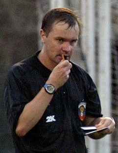 Alexei Kovalev in match between FC Zenit St. Petersburg and FC Tom